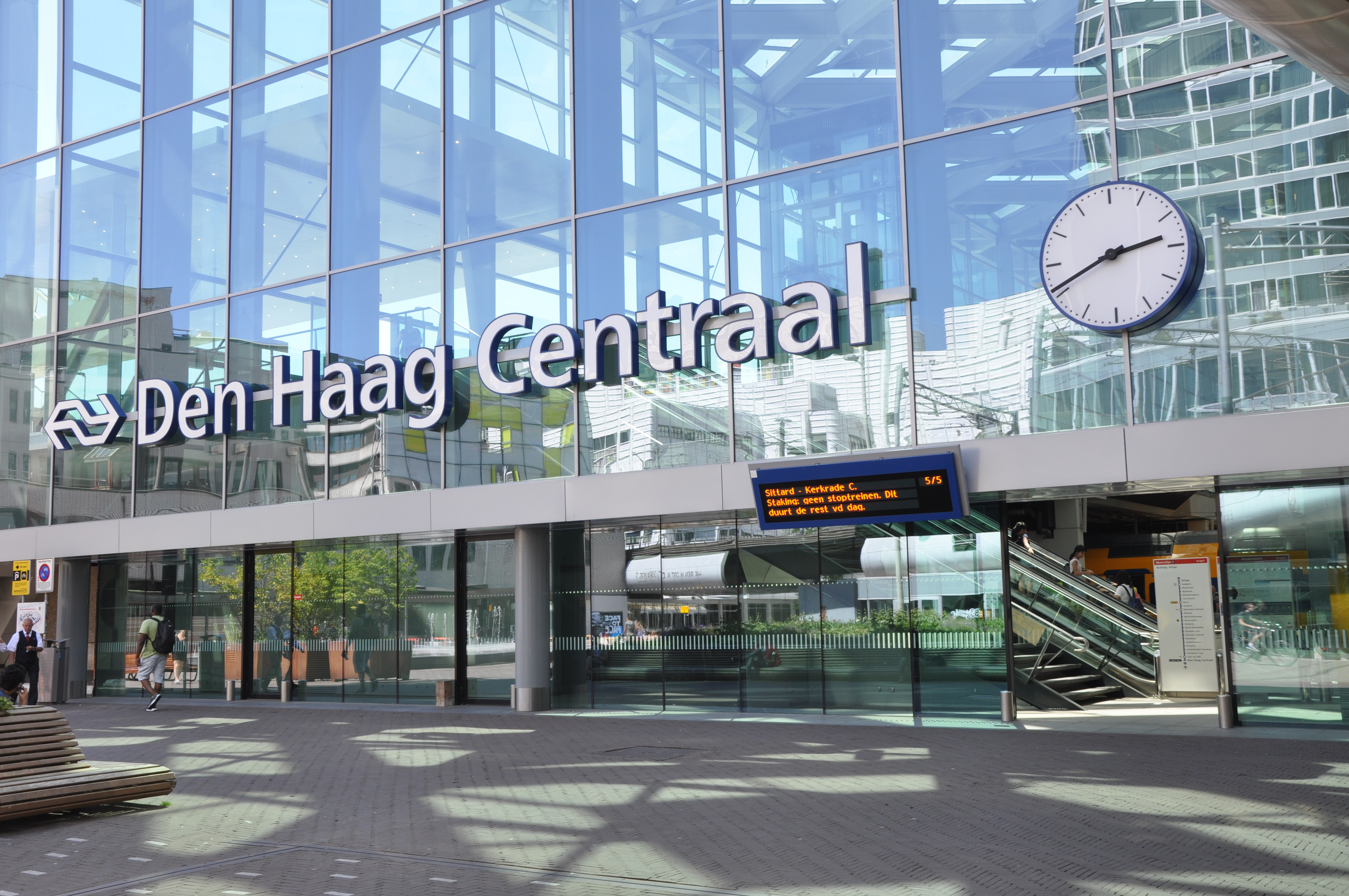 The Hague Central Station, Anna van Buerenplein entrance, 2018